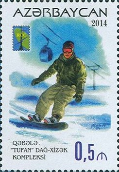 N 1171 - 50 qapik – There are pictured the snowboarder in the “Tufan” ski resort in Gabala on the stamp.